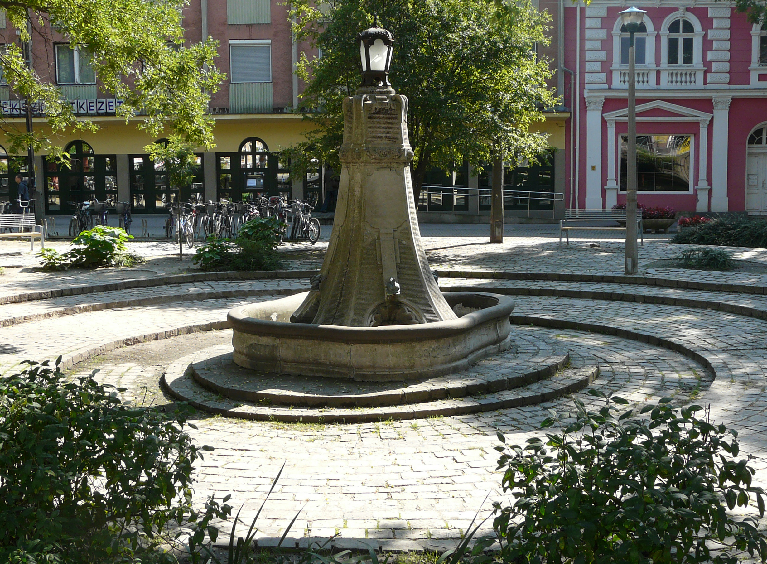 The square in Dunaföldvár